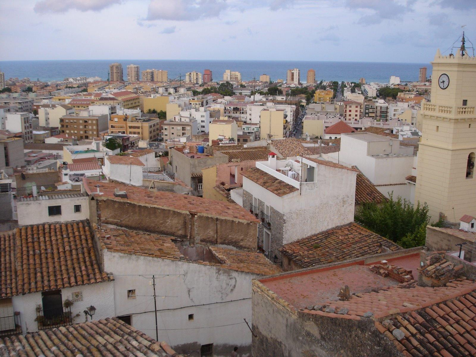 Overview of Oropesa del Mar, Spain.